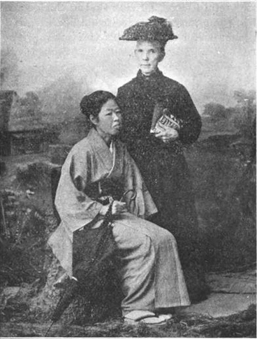 (l-r) O Yone Hara San (adopted name, Daisy) & America McCutchen Drennan, from a 1904 publication.